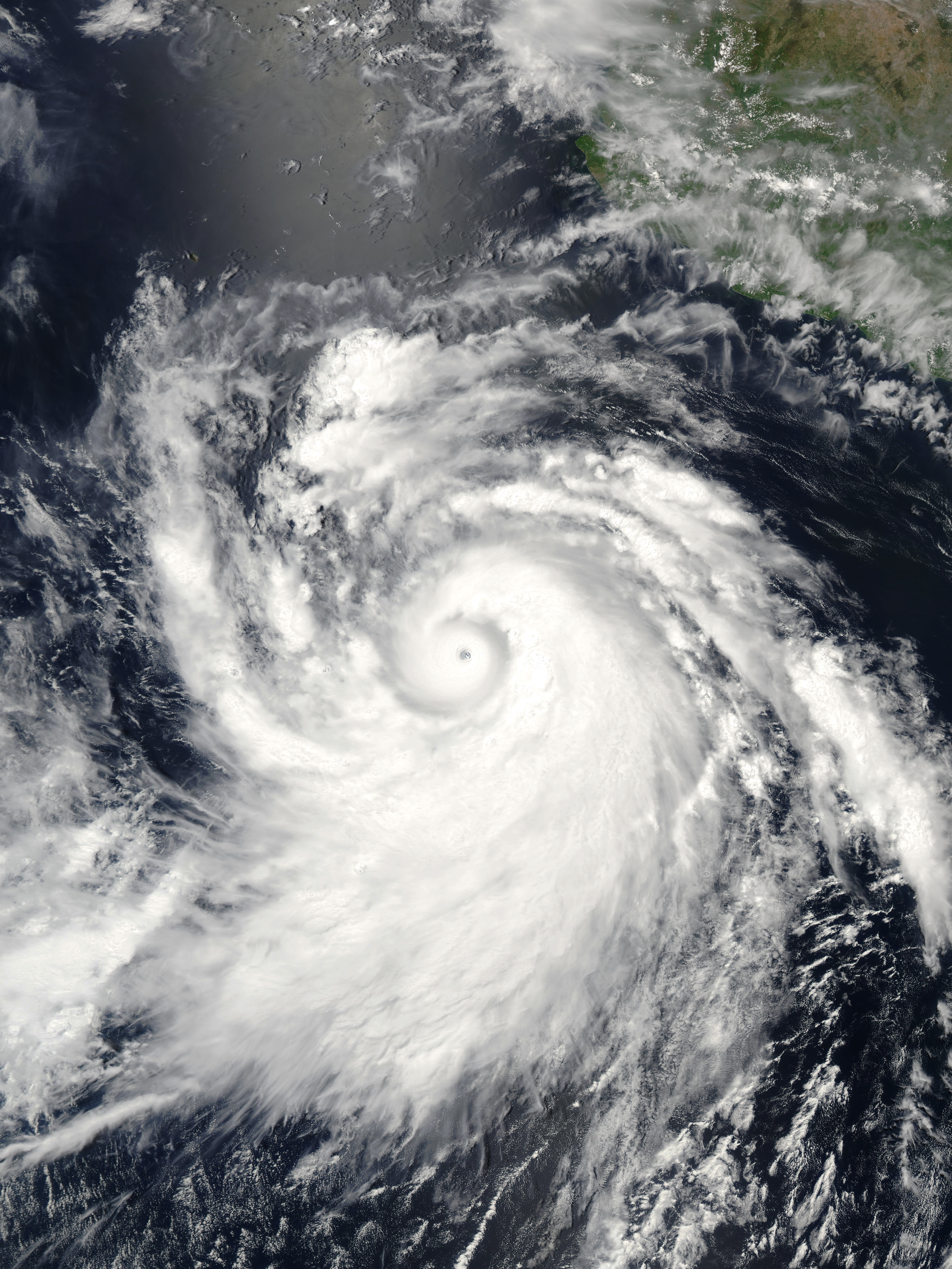 Hurricane Elida on July 24, 2002